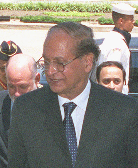 Abdul Sattar (right), Pakistan's minister of foreign affairs, arrives at the Pentagon, June 19, 2001, where he is escorted to the meeting room by his host, Secretary of Defense Donald H. Rumsfeld (left). Minister Sattar met with both Rumsfeld and Deputy Secretary of Defense Paul Wolfowitz to discuss a range of regional issues of interest to both nations.